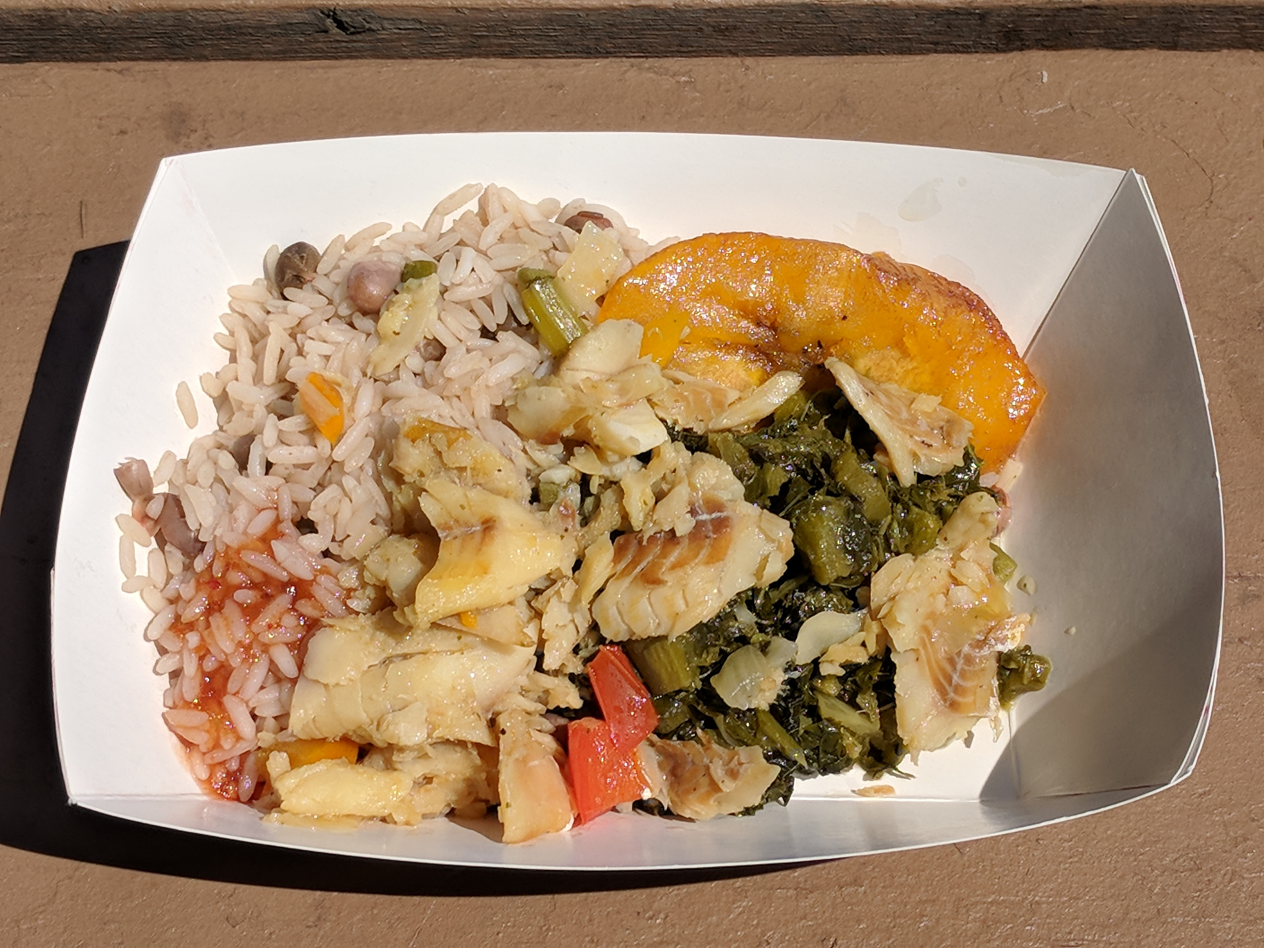 A serve of saltfish, callaloo, rice and peas, and a fried plantain at the 2018 Livie's Family Fun Day in Genesee Valley Park